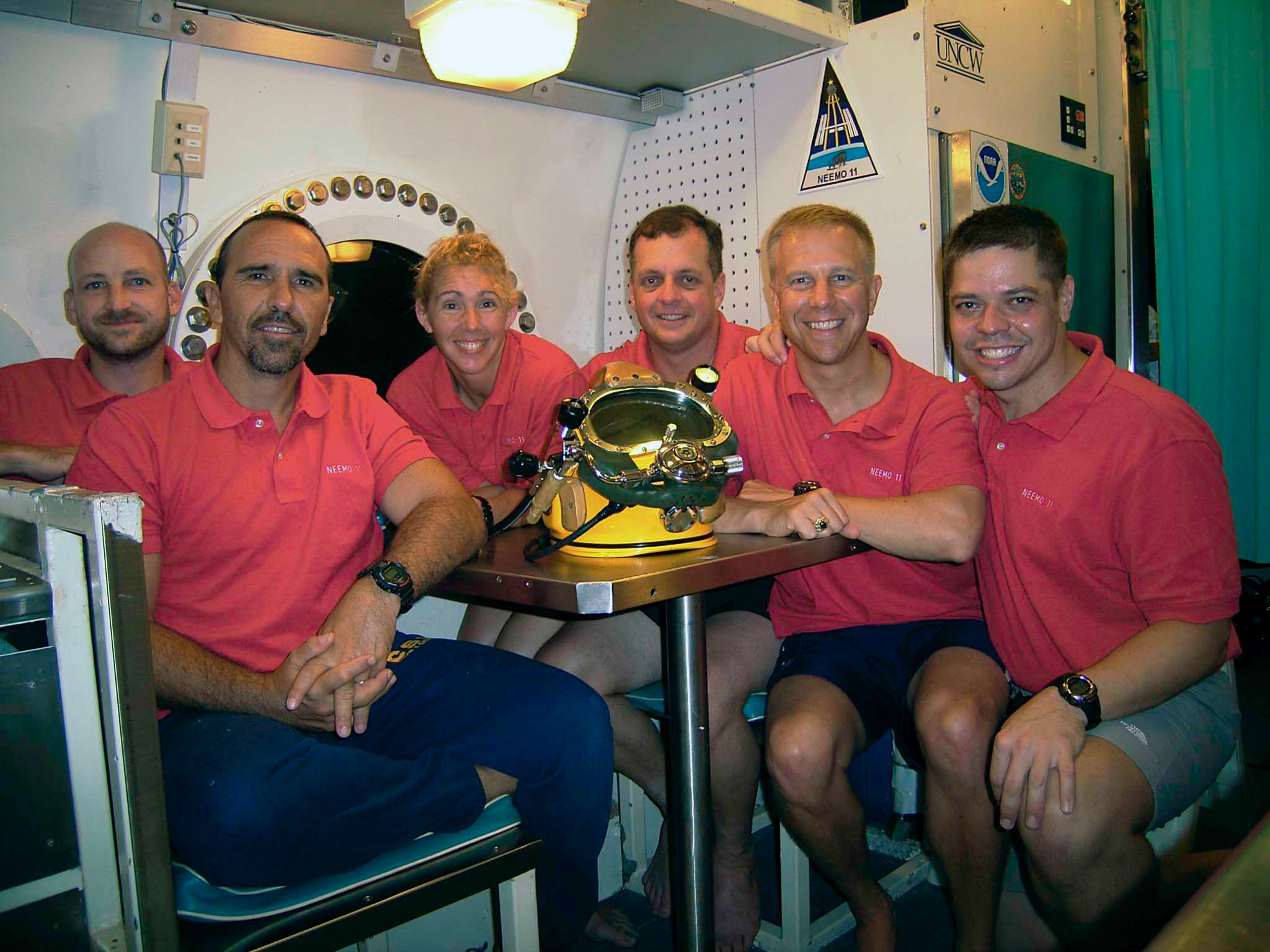 The crew of the NASA-NOAA NEEMO 11 undersea exploration mission, conducted aboard the Aquarius underwater laboratory off Key Largo, Florida, in September 2006. Left to right: Aquarius habitat technicians Larry Ward and Roger Garcia, and NASA astronaut/aquanauts Sandra H. Magnus (commander of NEEMO 11), Timothy J. Creamer, Timothy L. Kopra and Robert L. Behnken.